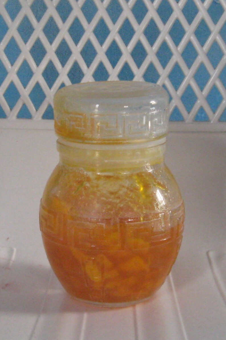 Papaya jam made by women of Kounkane, Upper Casamance (Senegal)